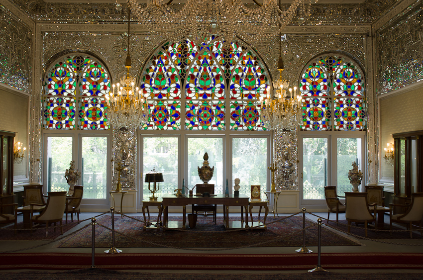 Sahebqraniyeh Palace interior — at the Niavaran Palace Complex in Tehran. Example of Qajar dynasty architecture.